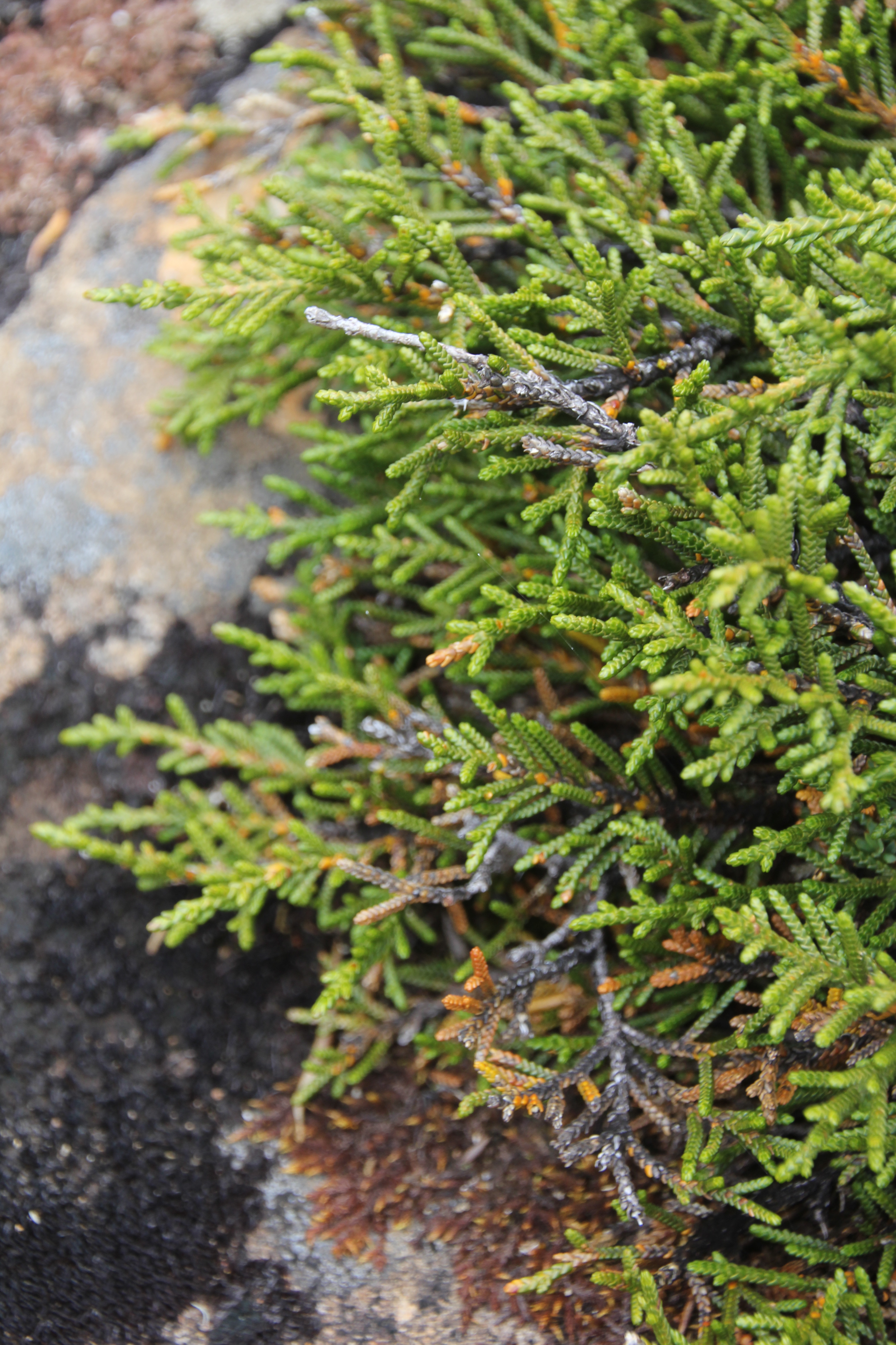 Microcachrys tetragona coniferous heath